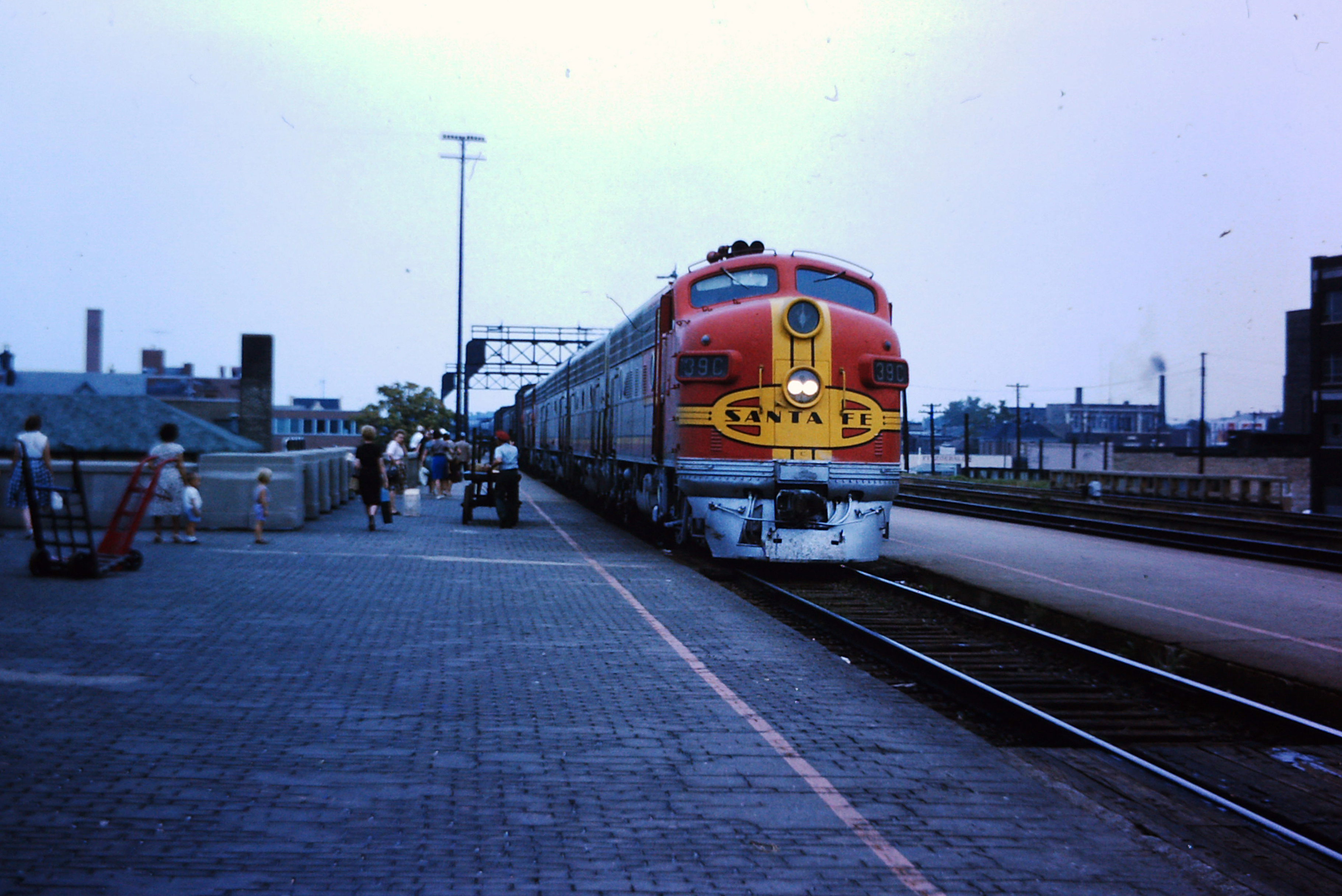 The Santa Fe's Grand Canyon Limited at Joliet, Illinois. The train is led by EMD F7 #39C.